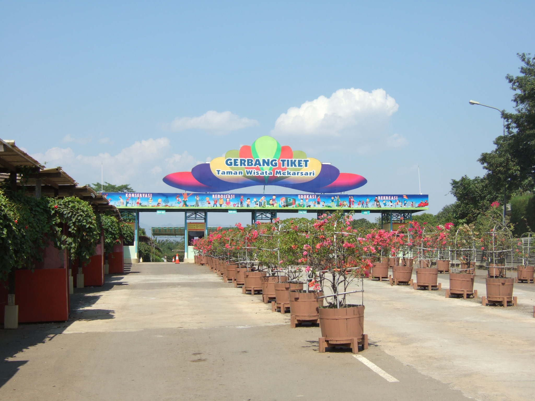 Mekarsari Amazing Tourist Park, Cileungsi, West Java